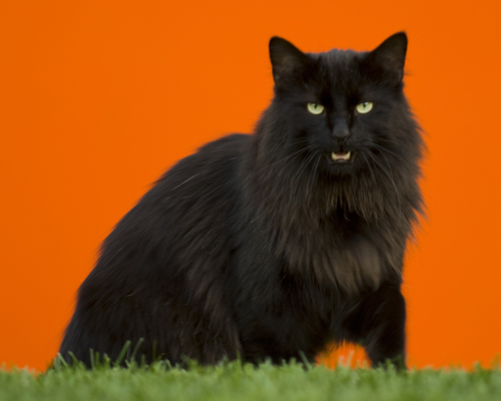 Black Norwegian Forest Cat in Winter. 18 months old.